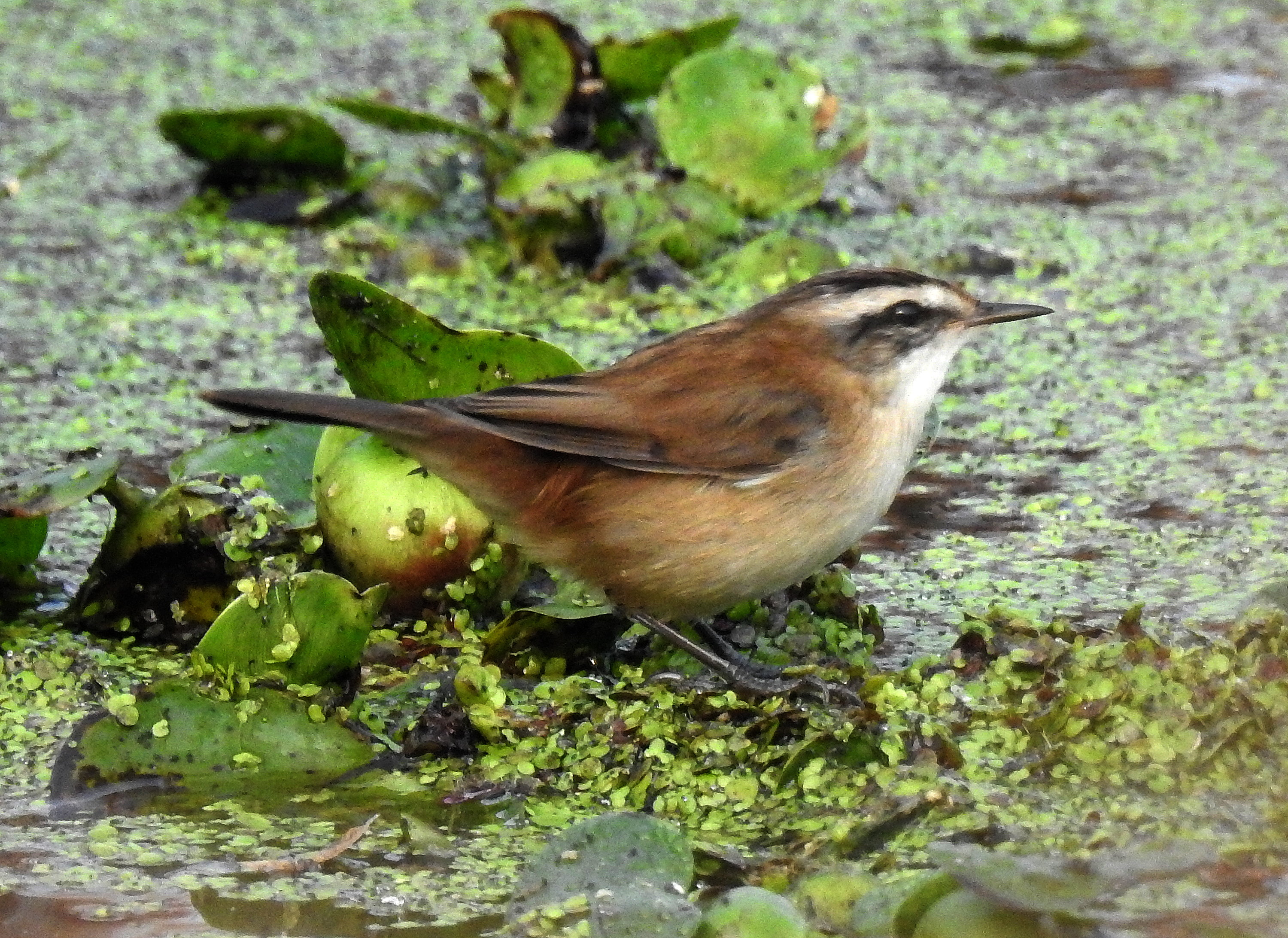 Moustached Warbler Acrocephalus melanopogon photographed at Bharatpur, Rajasthan, India by Dr. Raju Kasambe